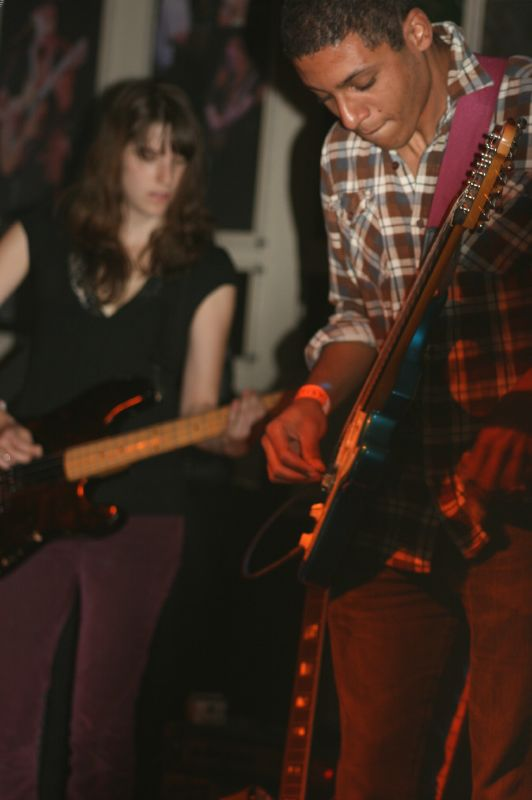 Miles Benjamin Anthony Robinson